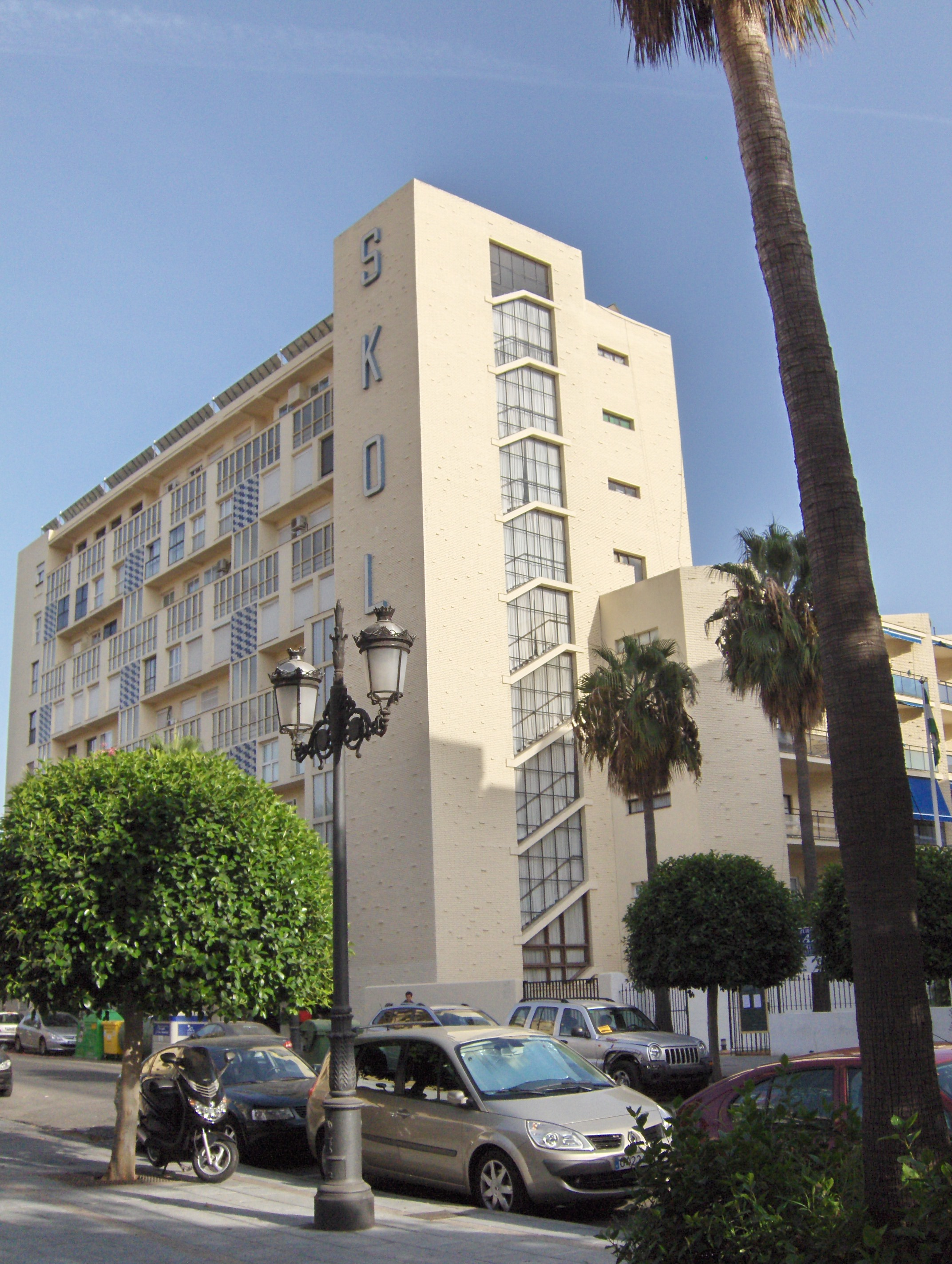 Apartamentos Skol, Marbella, Spain. Designed by Manuel Jaén Albaitero. Built in 1963